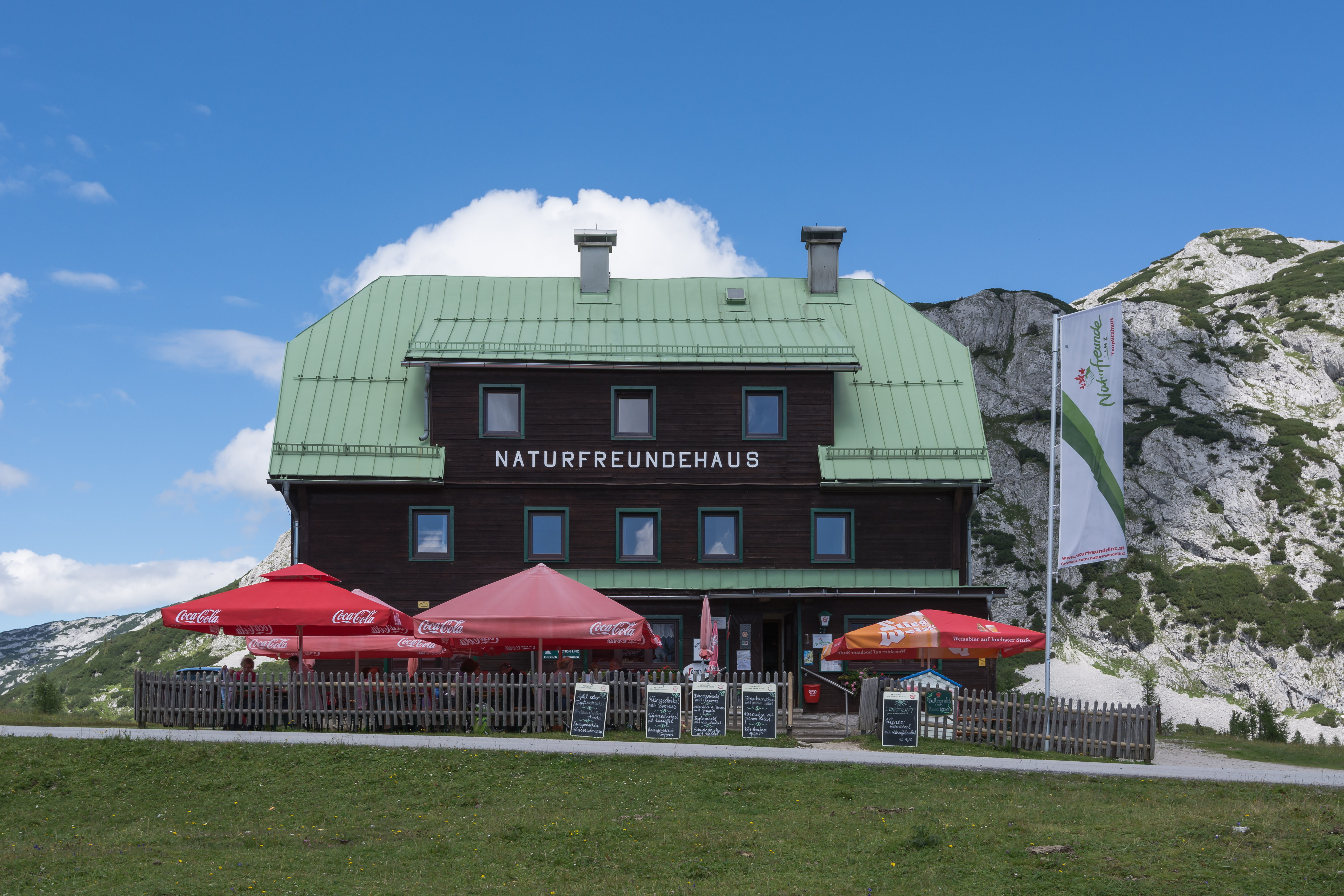 The house of Friends of Nature at the alpine pasture Tauplitzalm in Styria / Austria is located close to the top station of Tauplitzalm chairlift and is opened all-the-year.